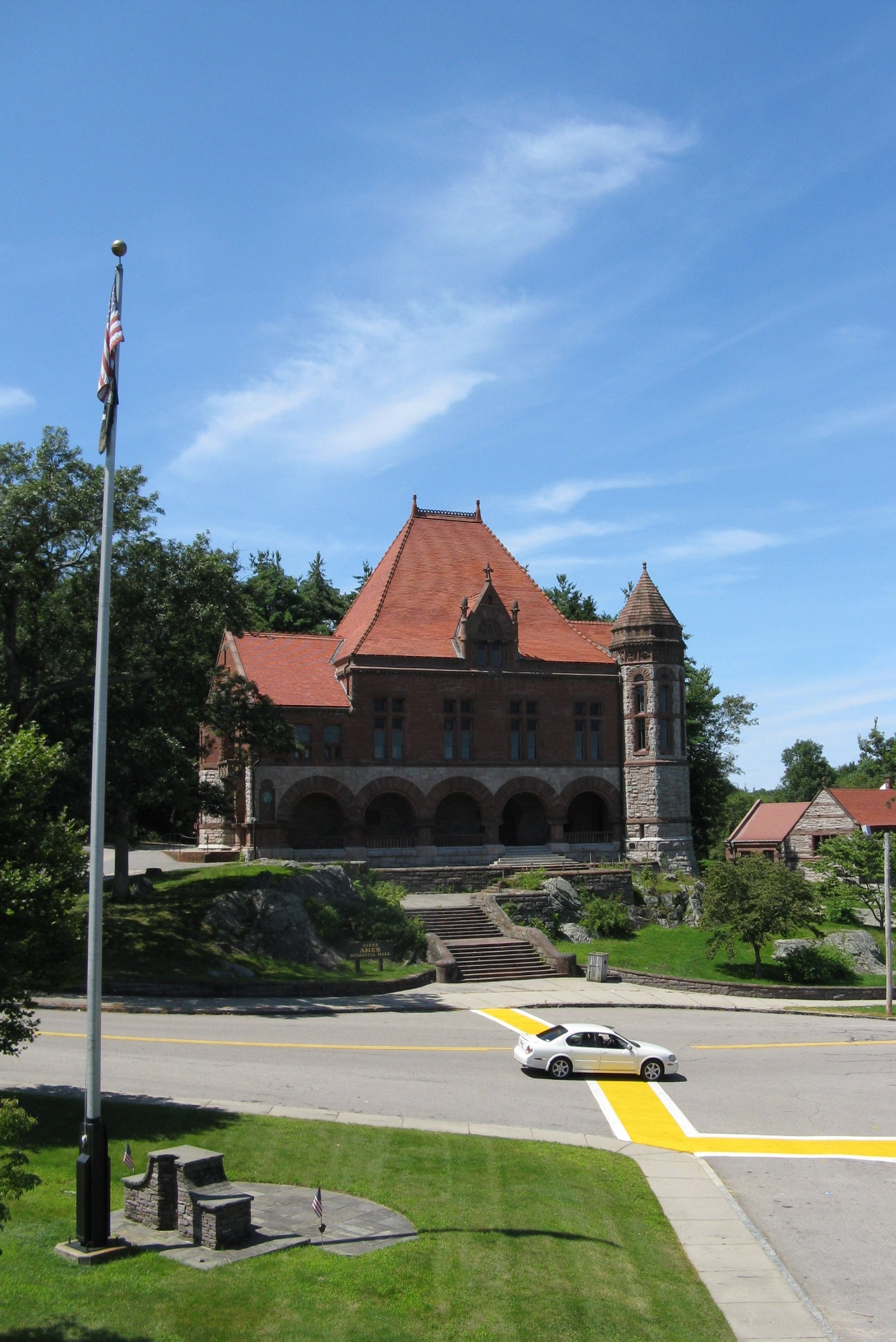 Ames Memorial Hall, North Easton Massachusetts